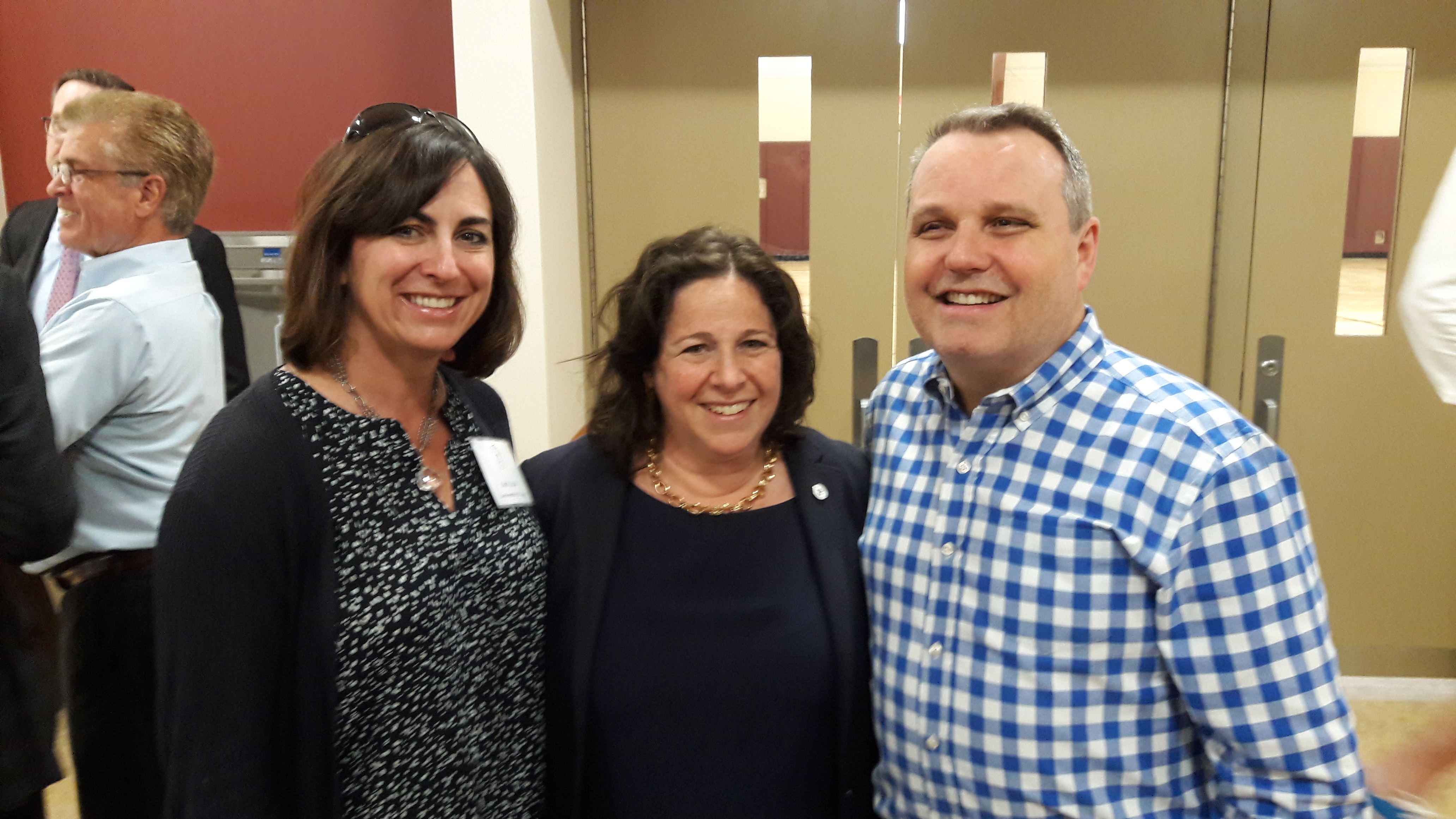 Council members (left to right:) Beth Little, Marjorie Fox and Matt Gould at the opening of the renovated and expanded Summit Community Center in May 2019. The rebuilt facility features two gymnasiums, a senior lounge including a fireplace, meeting room and game room, a small kitchen, and administrative offices.